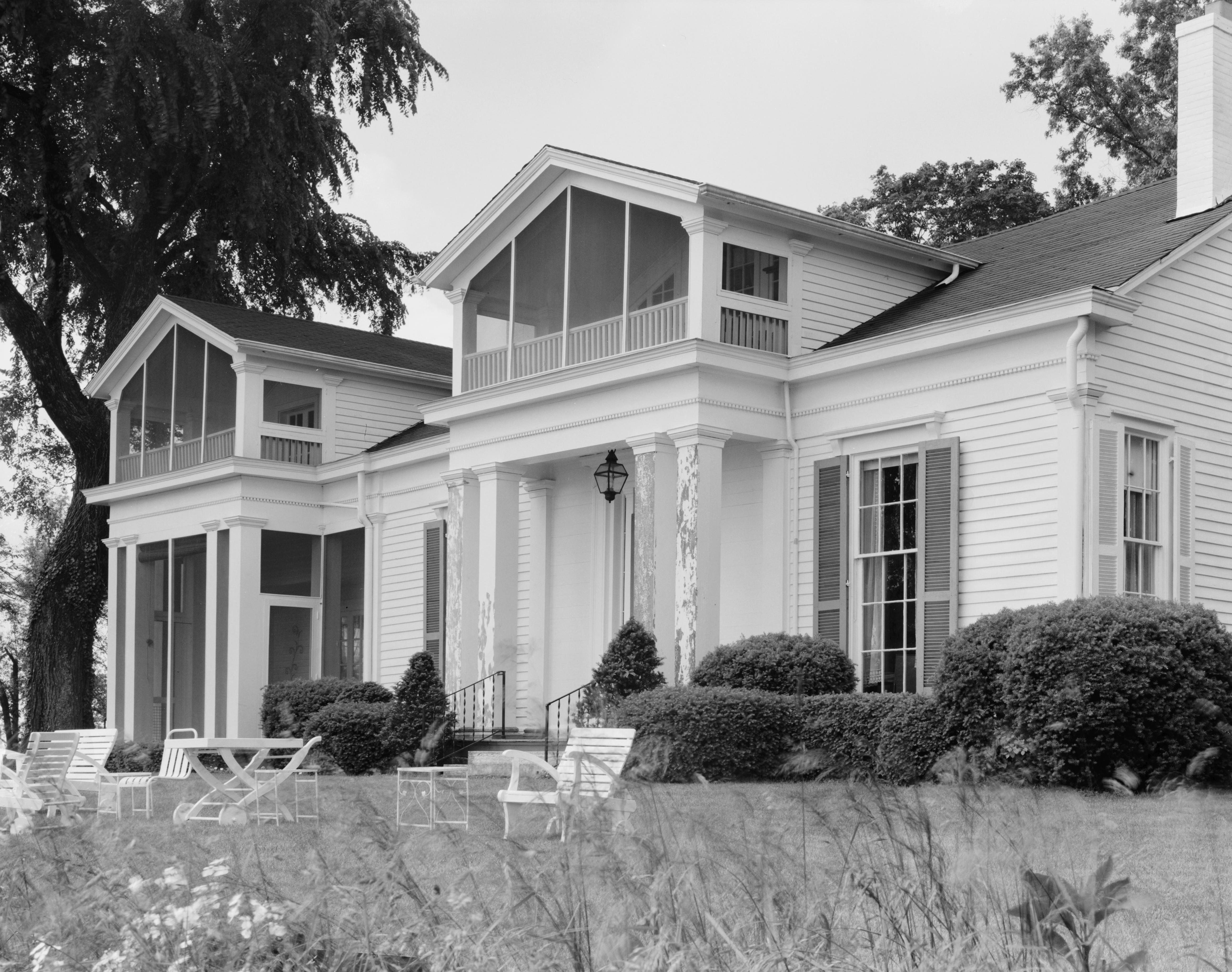 Front of Veraestau, a historic house located along State Road 56 1 mile south of Aurora in Dearborn County, Indiana, United States. Built in 1838, it is listed on the National Register of Historic Places.